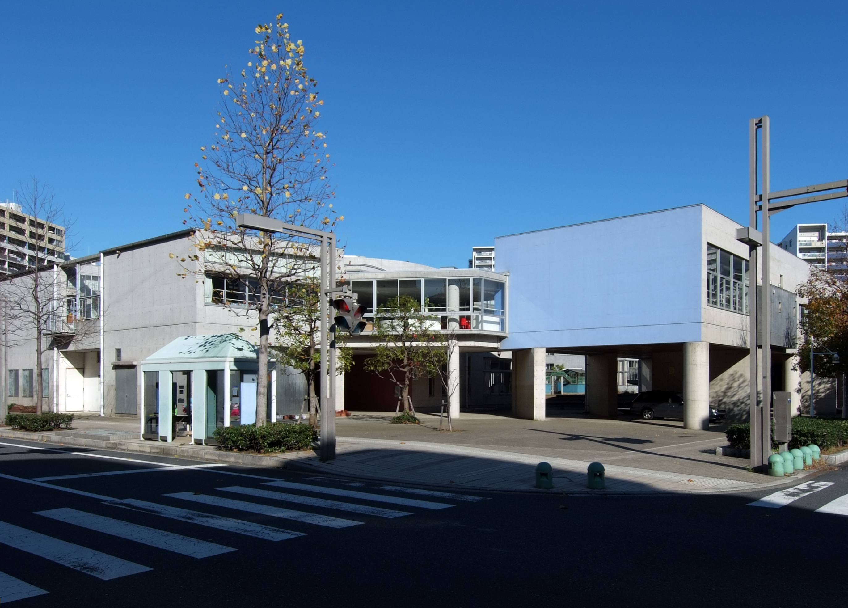 Chiba Municipal Utase Elementary School, Mihama-ku Chiba Japan, designed by Coelacanth K&H Architects in 1995.